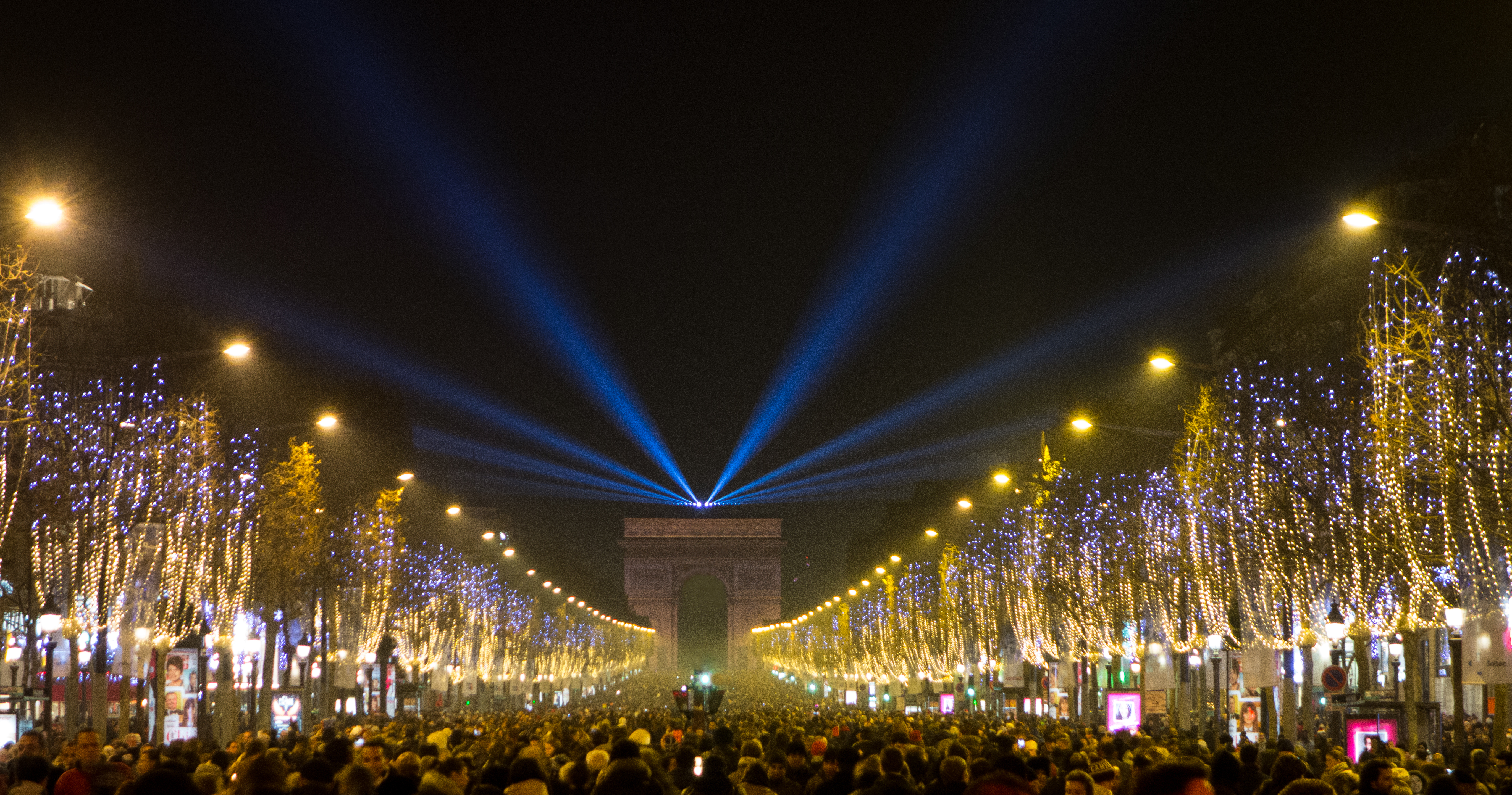 Happy New Year From Paris With Love